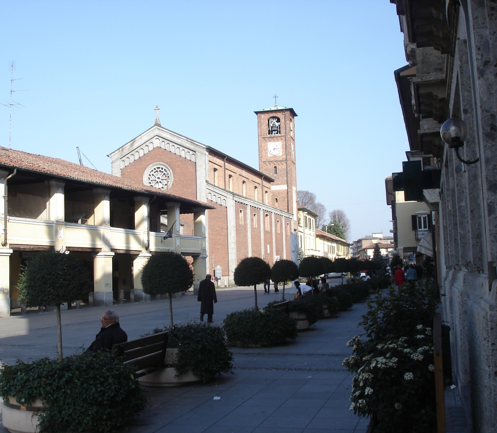 This photograph was taken in the main square of Magenta, Italy. Click on the thumb photograph on the right to see the same location, looking back towards the square. right|100px|thumb